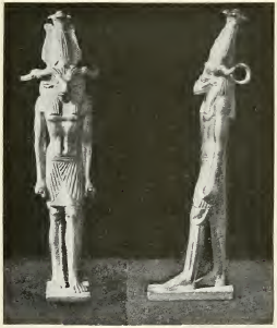 Golden statuette of the god Hershef with the name of Neferkare Peftjauawybast, local kinglet of Henen-nesut (Herakleopolis Magna) during the third intermediate period.